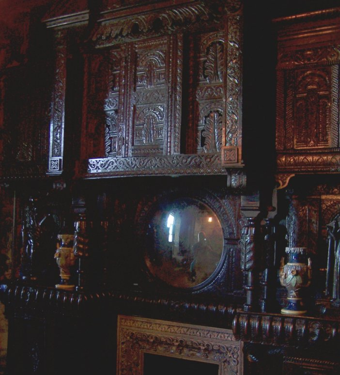 Interior of Victor Hugo's House in St. Peter Port, Hautville House. Hugo designed the interior himself; historic wooden panels and the play with light and darkness play an important role.